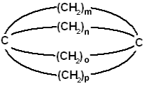 Description: general structure of paddlane Author: MOstrows